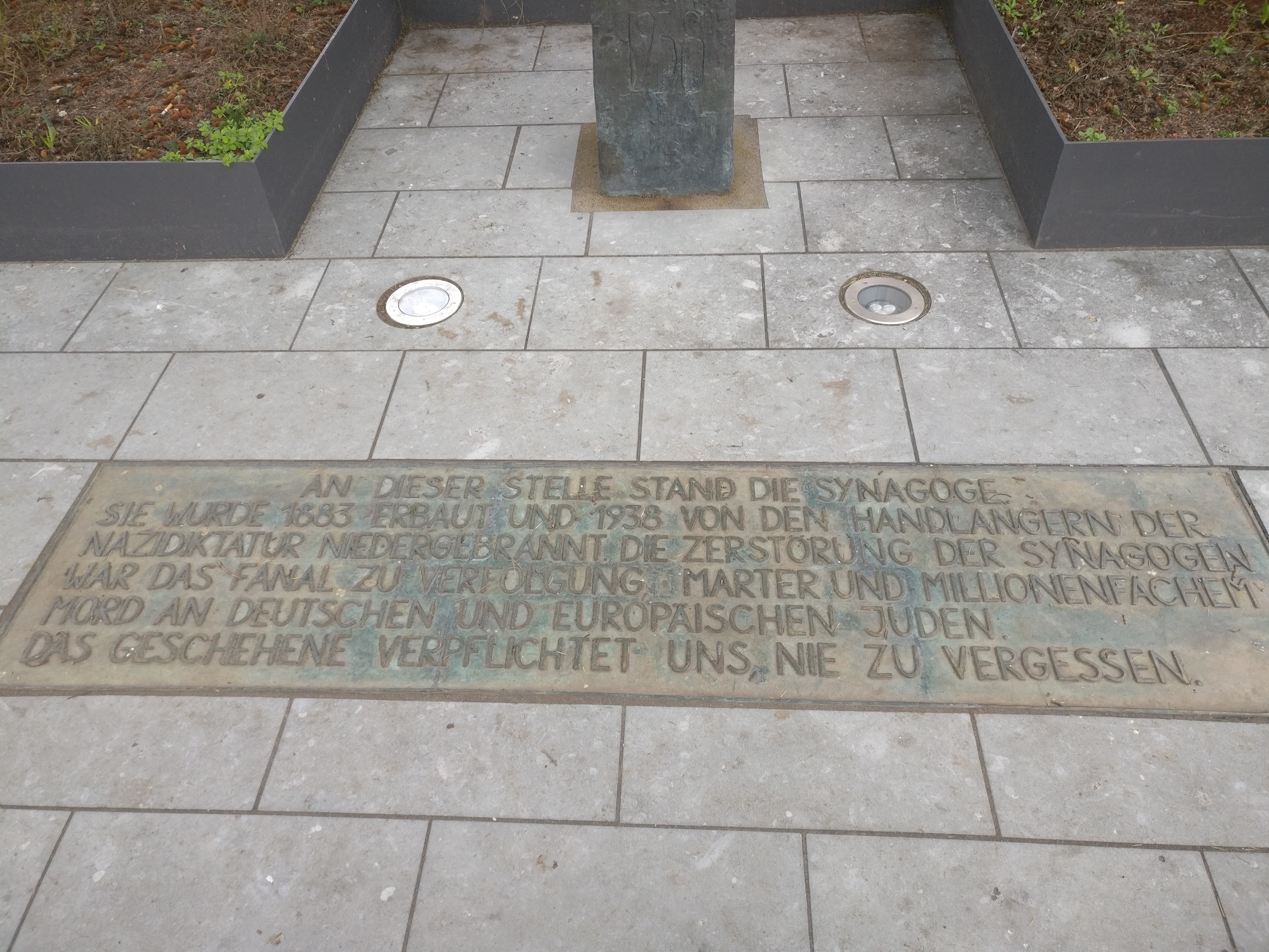 memorial synagogue Landau i. d. Palatinate (Germany)